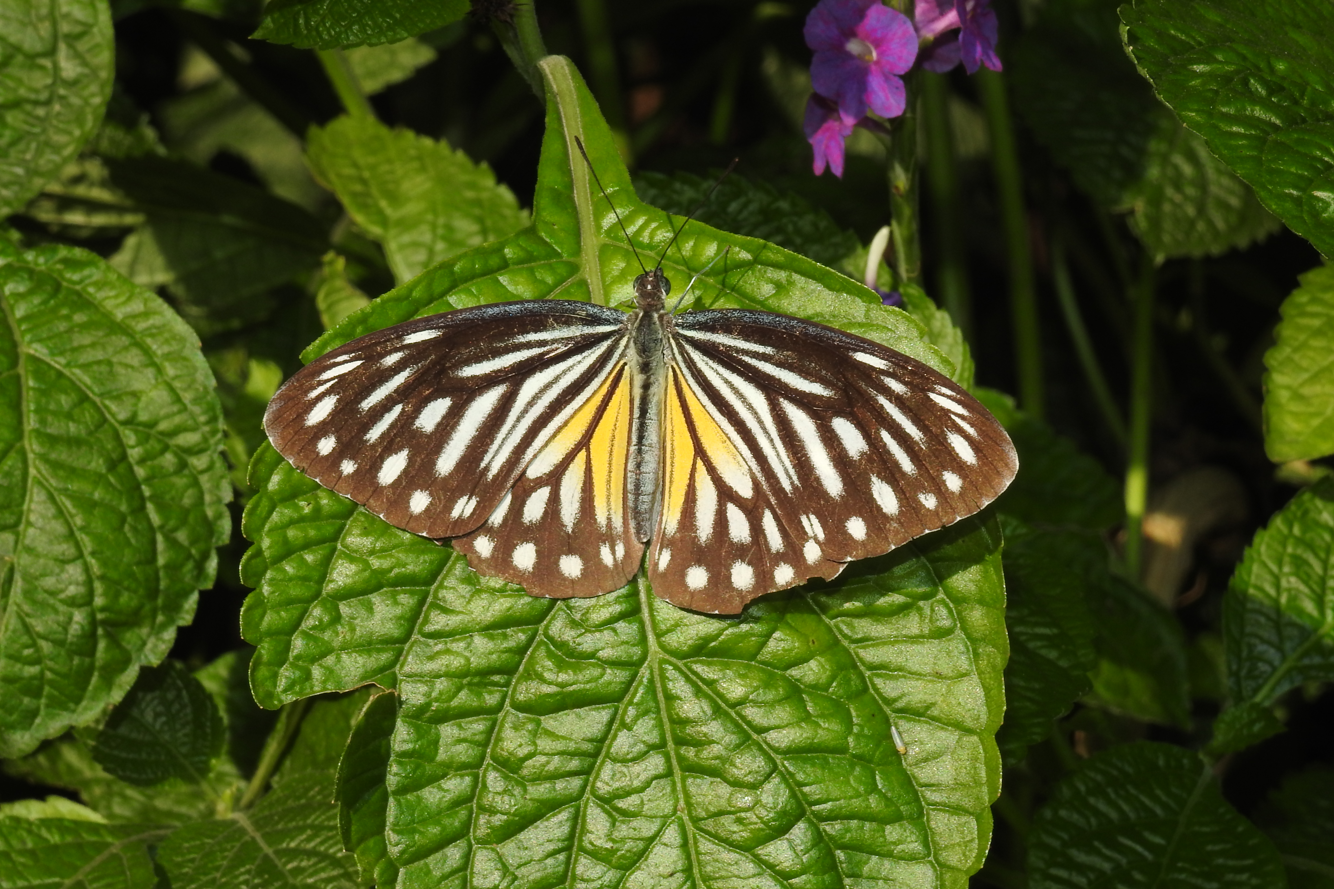 Common Wanderer Pareronia valeria female philomela form. Clicked by Dr. Raju Kasambe in BNHS Conservation Education Centre, Goregaon, Mumbai. Sanjay Gandhi National Park.